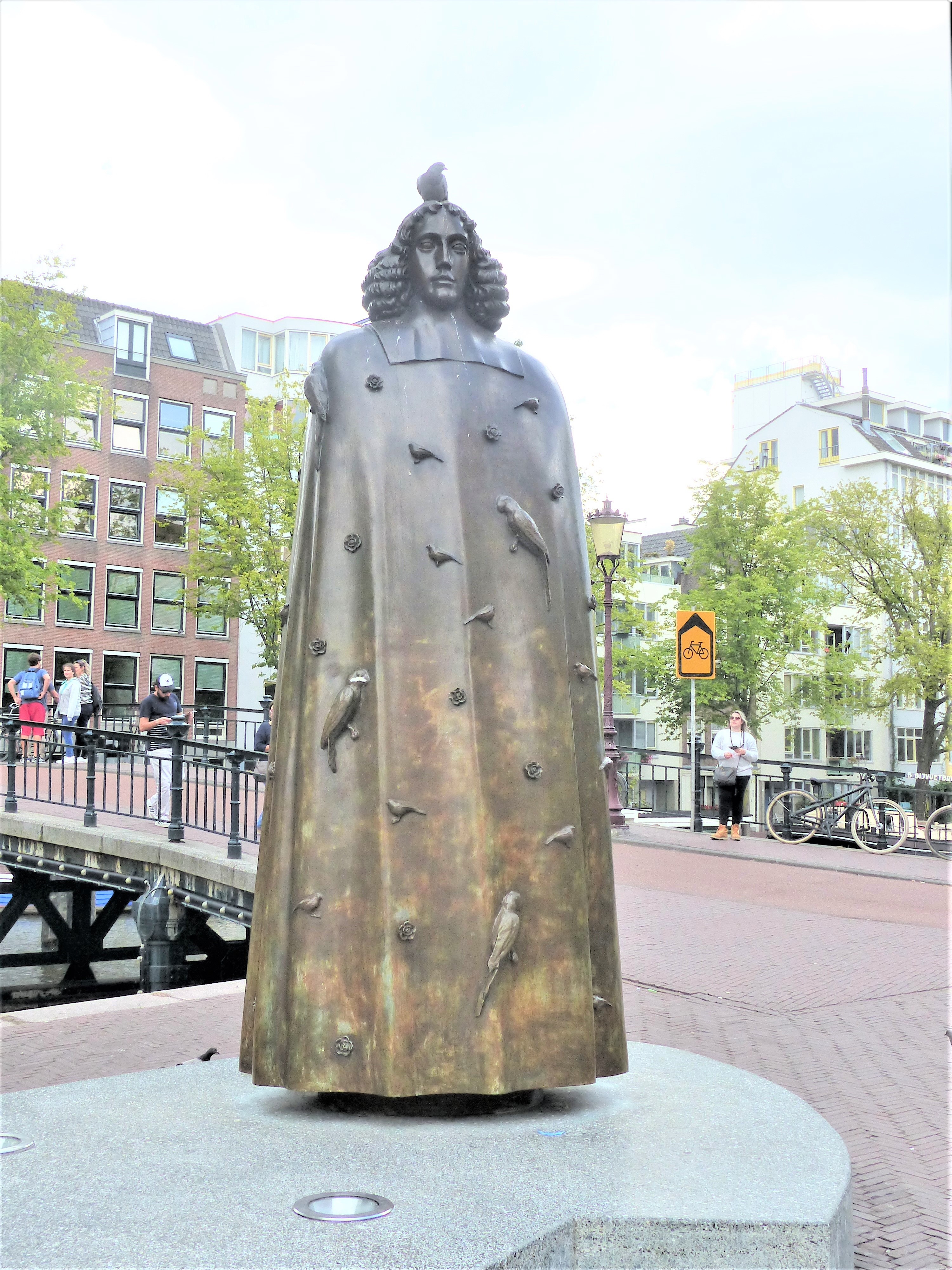 Bronze statue of Spinoza, Zwanenburgwal, Amsterdam, with an incidental pigeon on his head and metal rose-ringed parakeets and sparrows on his metal cloak, as symbols for the tolerance of Amsterdam to immigrants. The statue was inaugurated on November 24, 2008 (the 376th birthday of Spinoza) by the mayor of Amsterdam, Job Cohen and Cultural Councillor Carolien Gehrels. Inscription at the oval dais of the base: "Het doel van de staat is de vrijheid", a quote from Spinoza's book Tractatus theologico-politicus (1670, 1677). (Translation: The purpose of the state is freedom.) The oval dais refers to elliptical planetary orbits. An icosahedron (polyhedron with 20 faces) is put next to Spinoza - not visible on this photograph.